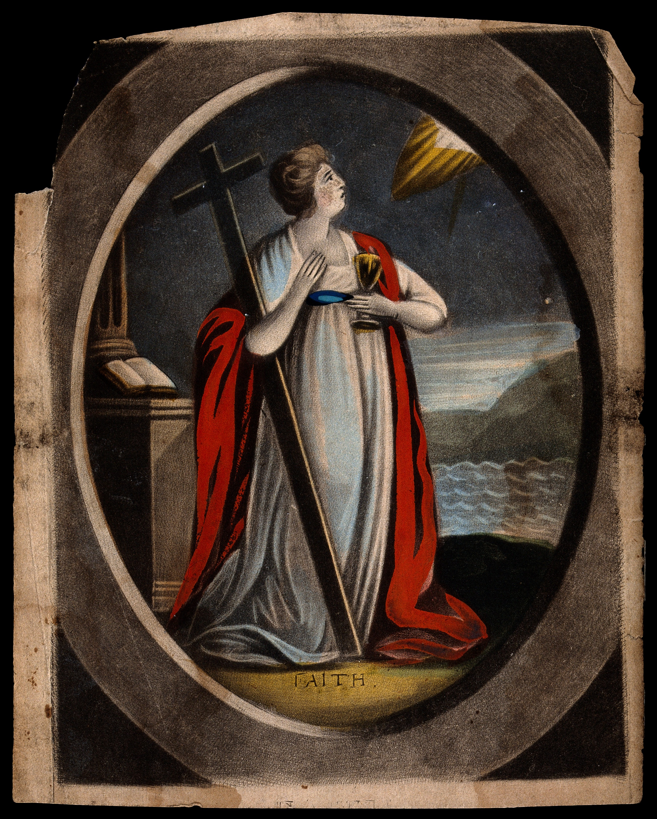 Saint Faith. Mezzotint coloured with gouache. Iconographic Collections